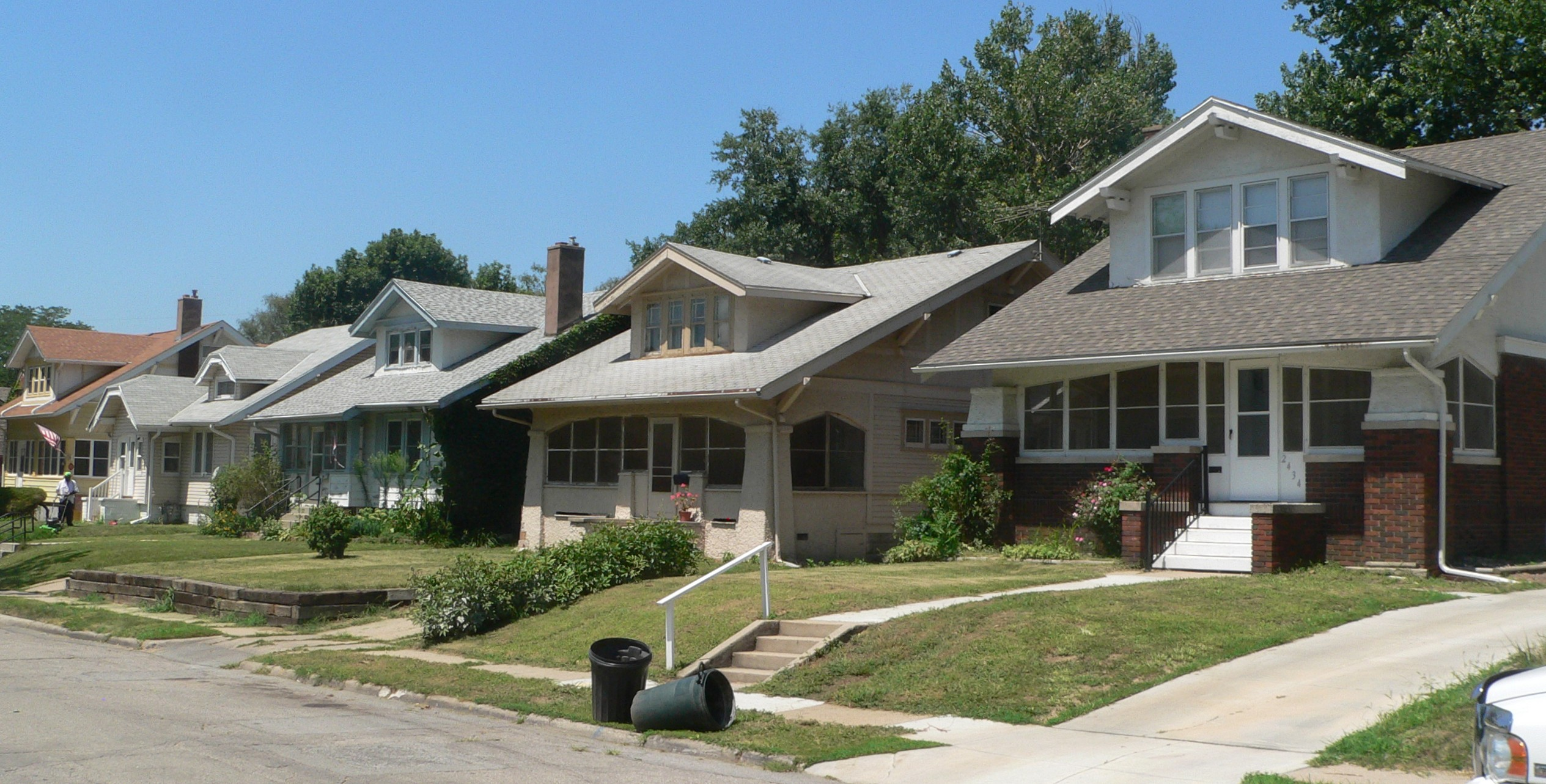 North side of 2400s block of Bauman Avenue in Omaha, Nebraska. From right to left are 2434, 2438, 2442, 2446, and 2450 Bauman Ave. The block is part of the Minne Lusa Residential Historic District, listed in the National Register of Historic Places. 2434, 2438, and 2442 are contributing properties in the district; 2446 and 2450 are non-contributing properties.